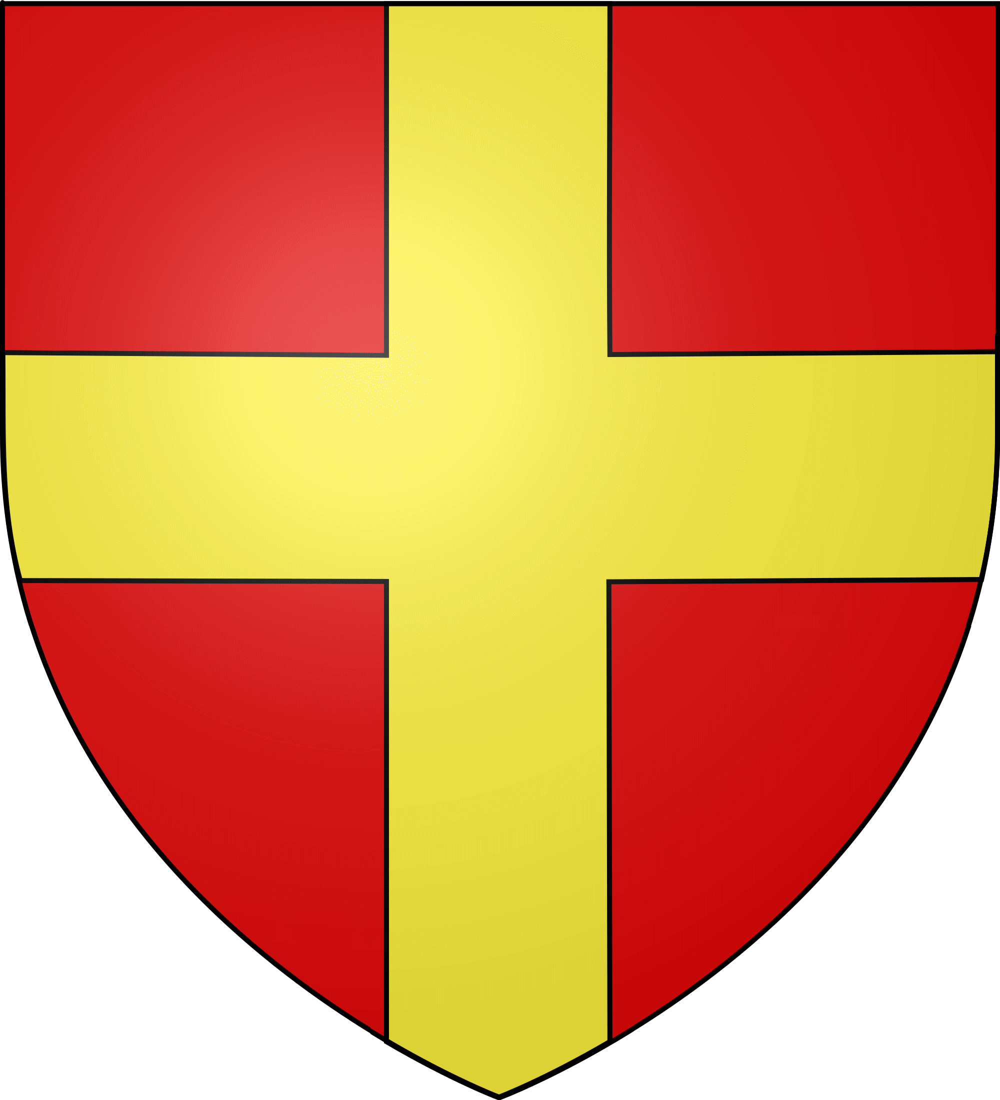 Coat of arms of the House of Tripoli, the cadet branch of House of Toulouse